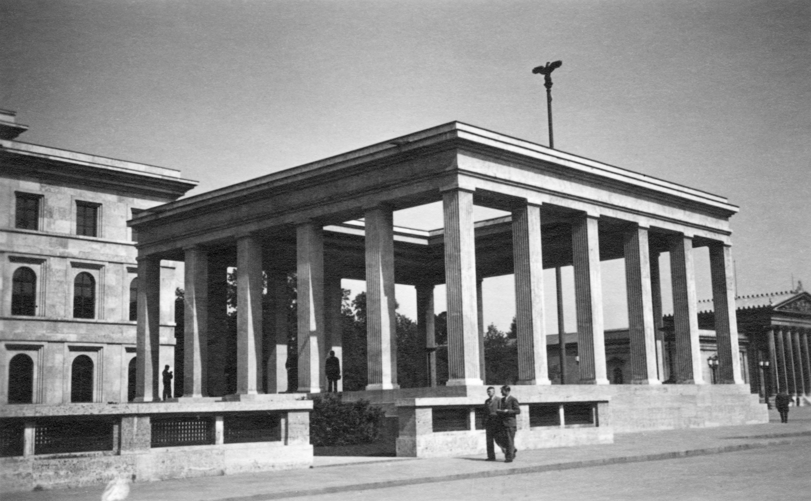 "Ehrentempel" and "Führerbau" (background) on the Königsplatz in Munich.